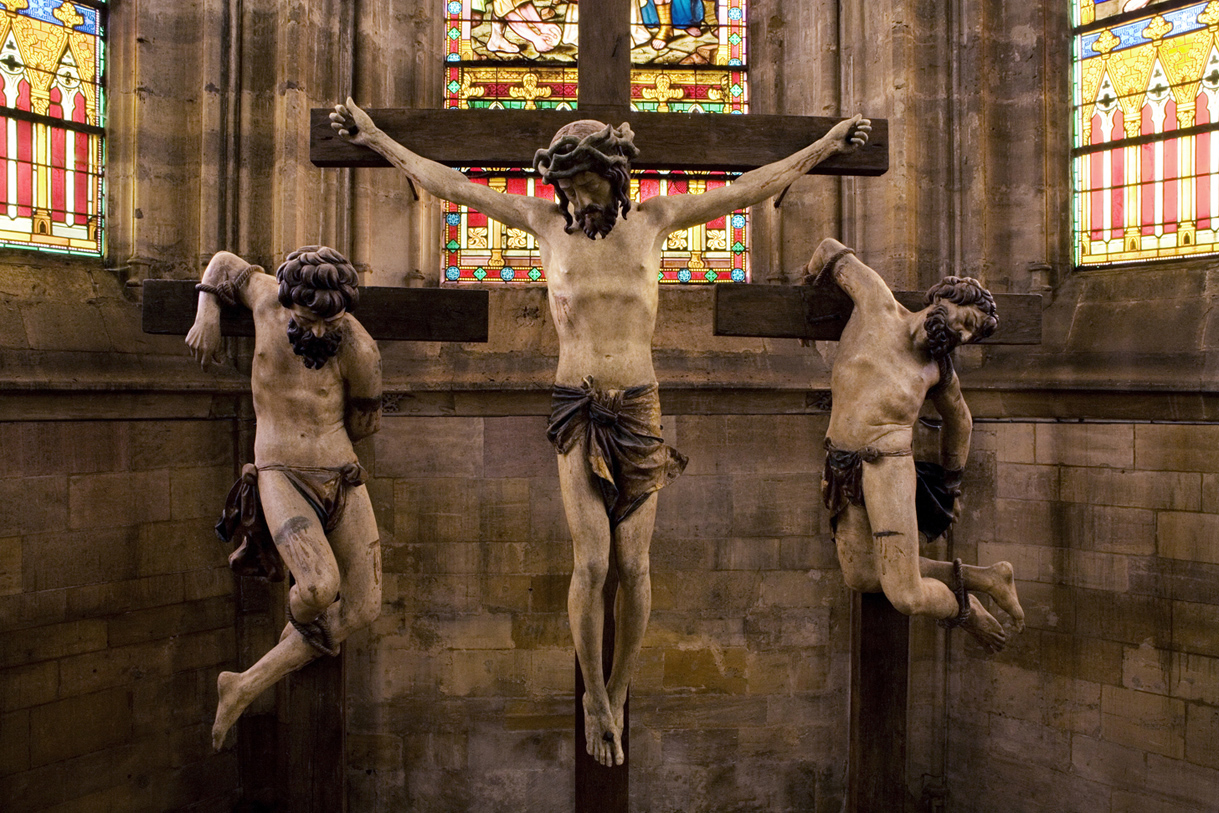 Ligier Richier calvary in the church of St Etienne in Bar-le-Duc